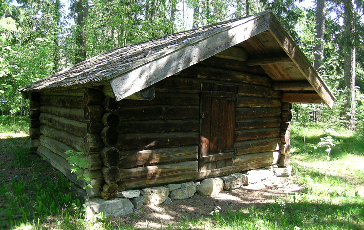 Lumberjacks' cabin from Stor-Elvdal, Norway. Probably built before 1900. Today at Hedmarksmuseet open-air museum, Hamar, Norway.